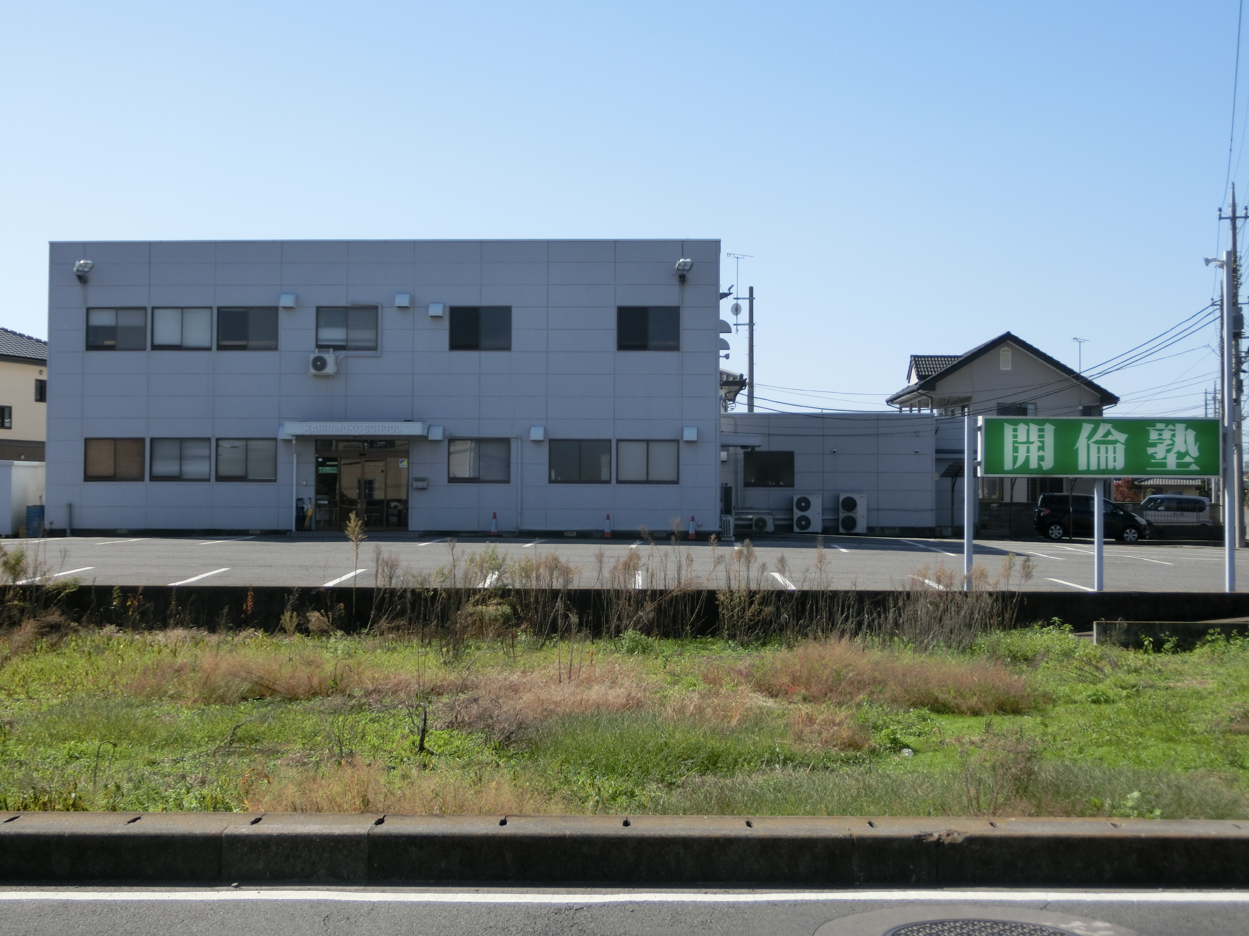 Kairin Juku Headquarters